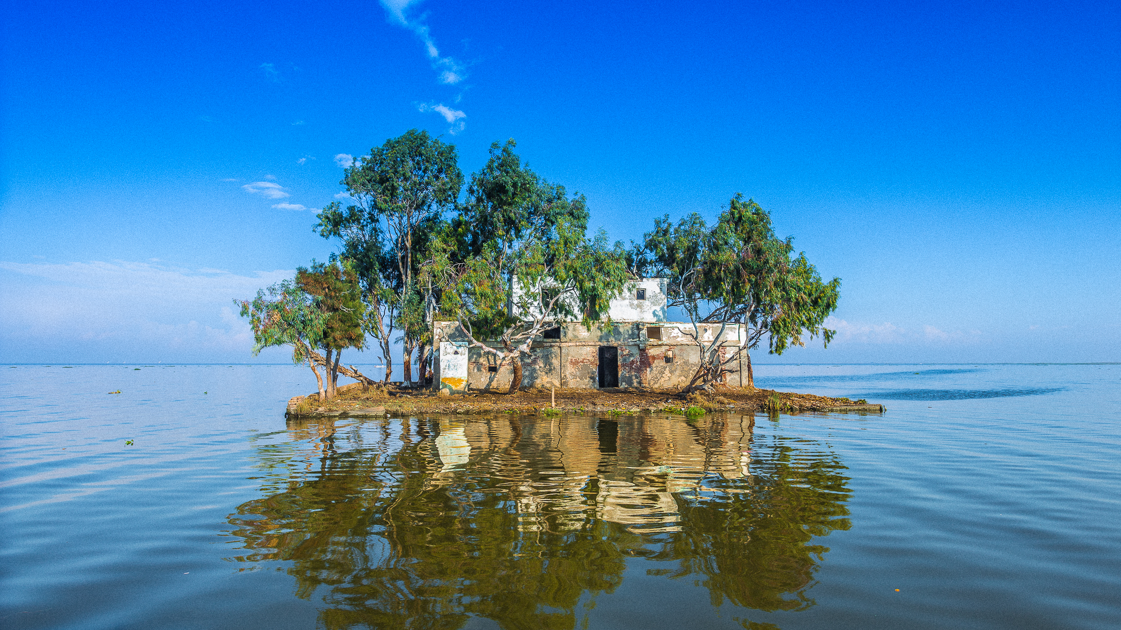 A single house in El-Burrulus lake, north of Egypt